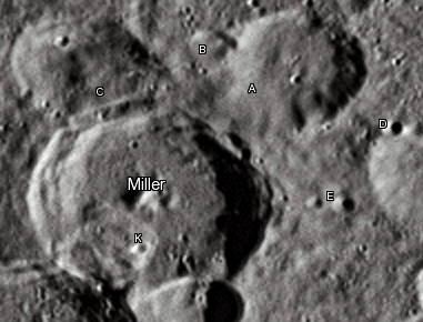 Miller lunar crater as seen from Earth with satellite craters labeled